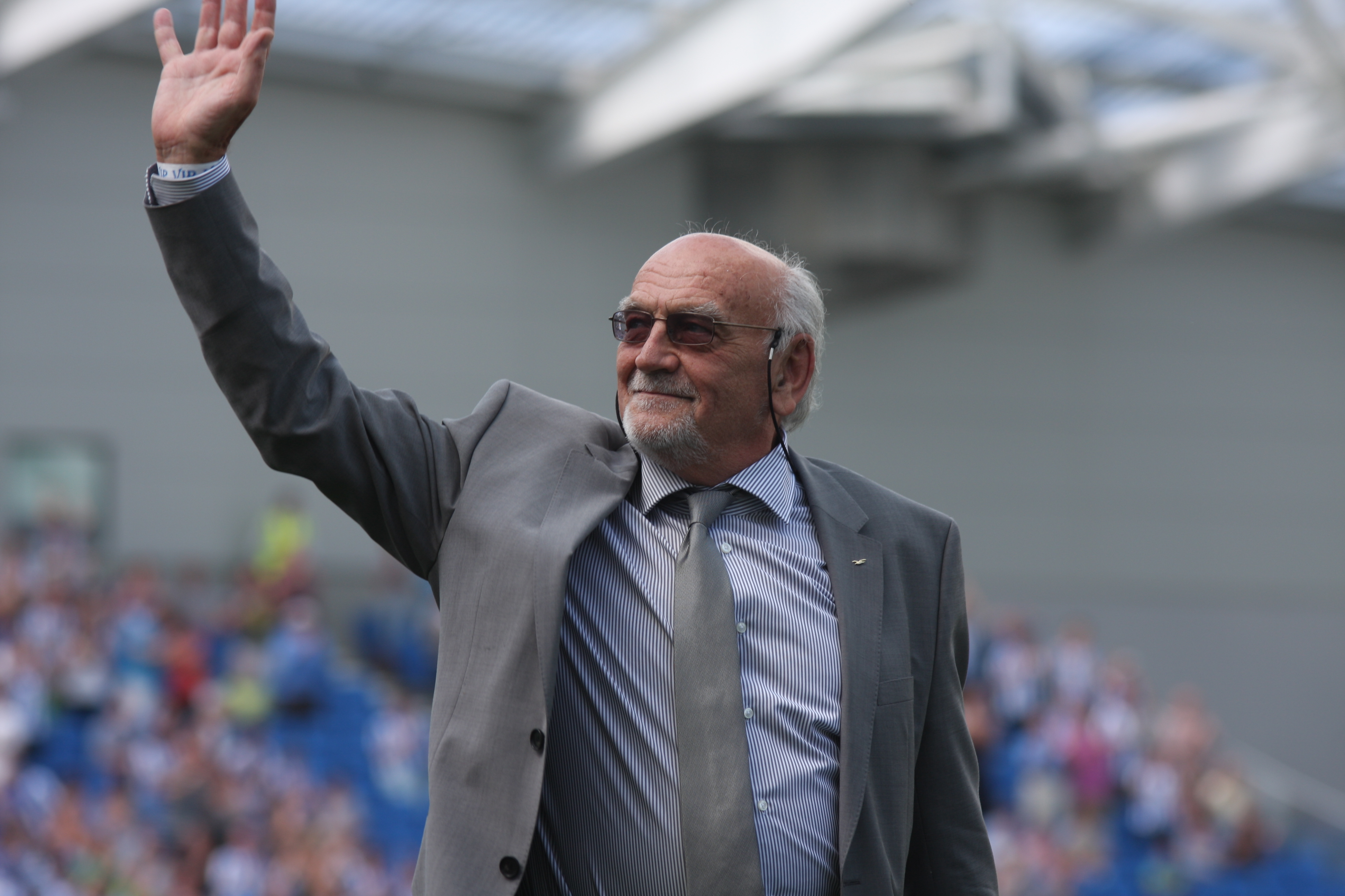 Dick Knight at the Brighton v Spurs Amex Opening 30/7/11